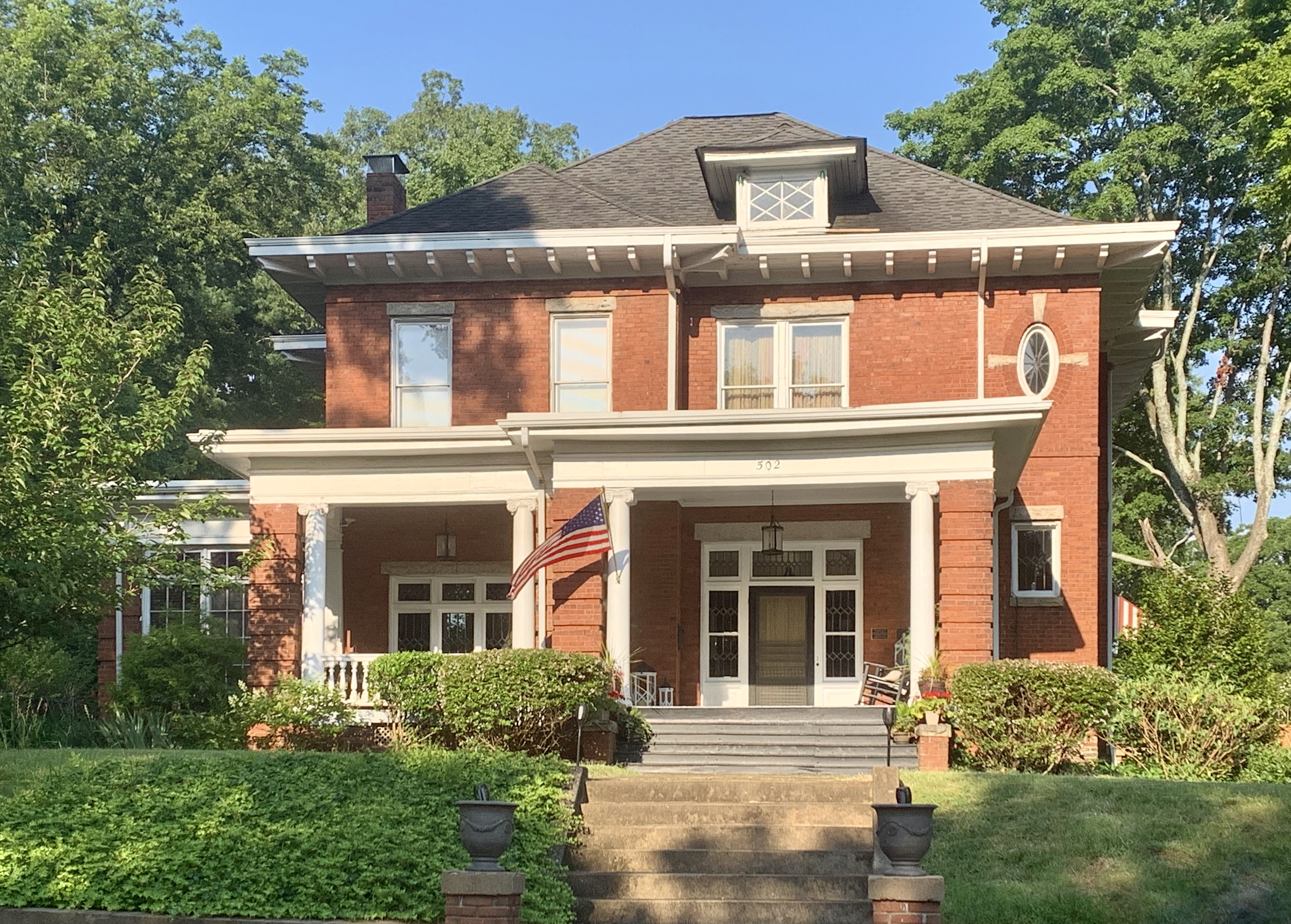 Home originally built (c. 1907) for Henry Oscar Steele, one of three sons of J. C. Steele, who established “J. C. Steele and Sons” brick machinery company.